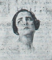 Bulgarian actress Vela Usheva (1895-1979)